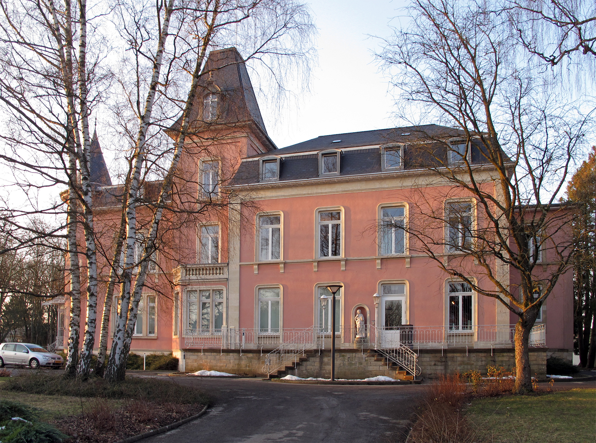 Administrative center of the Ligue HMC in Capellen, Luxembourg